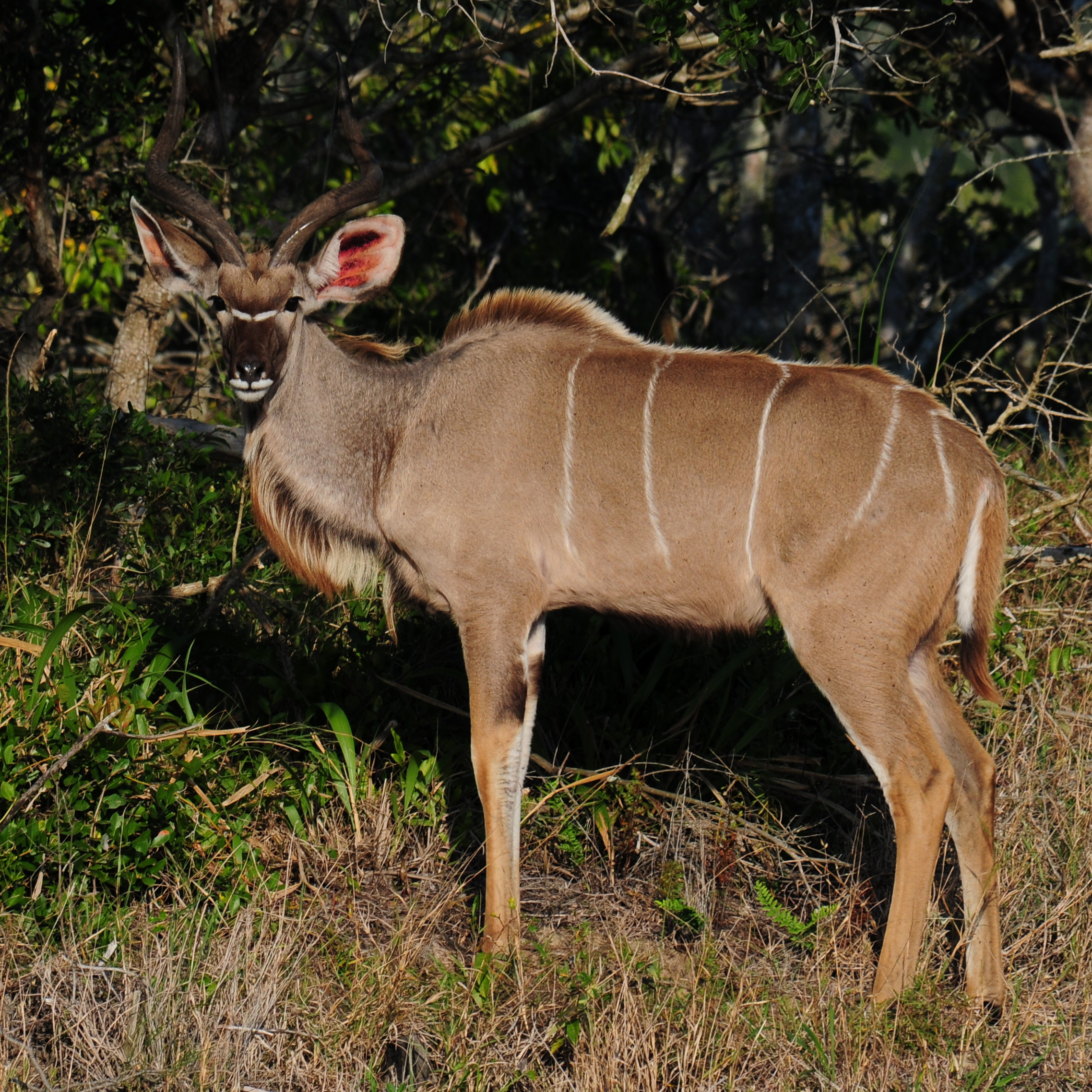 kudu